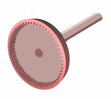 Internal spur gear.